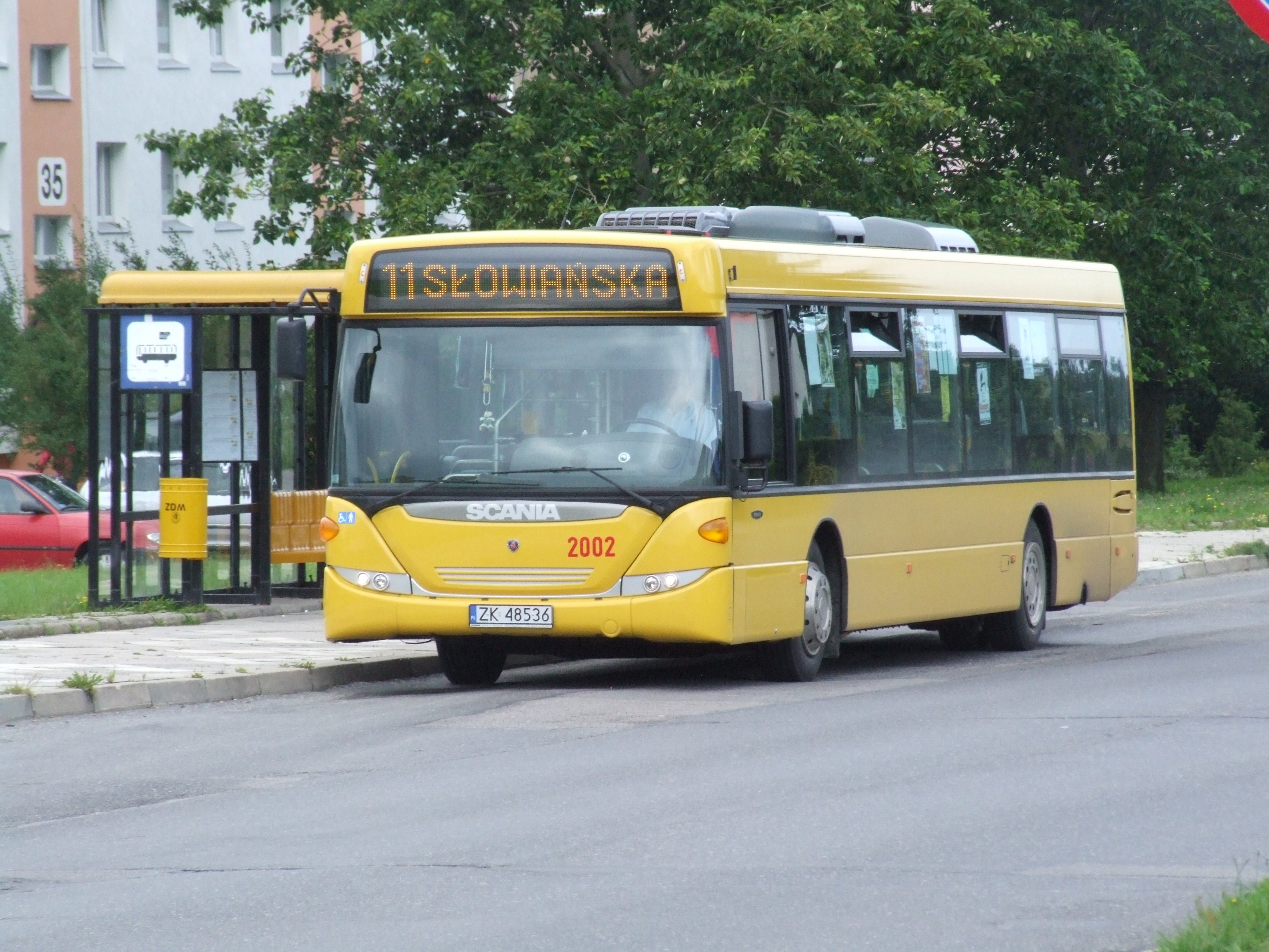 Scania CN270UB 4x2 EB OmniCity bus (#2002) in Koszalin, Poland. Built 2006, MZK Koszalin operator. Made by Scania Production Słupsk.